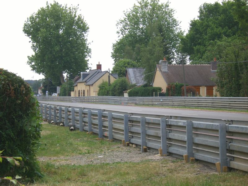 Route Nationale 138 road